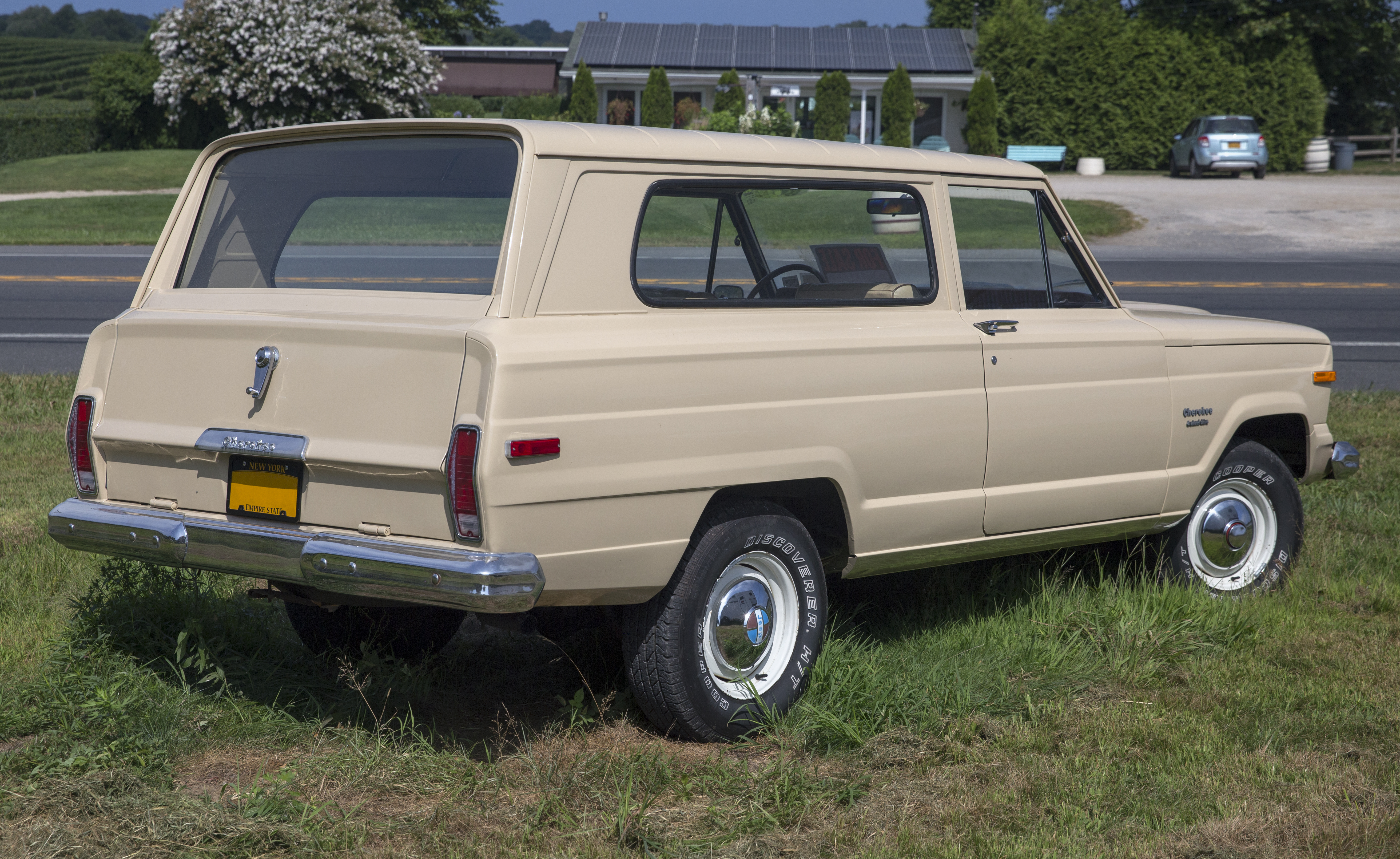 1975 Jeep Cherokee three-door four-wheel-drive. Three on the tree, six-cylinder, and only 21K miles!